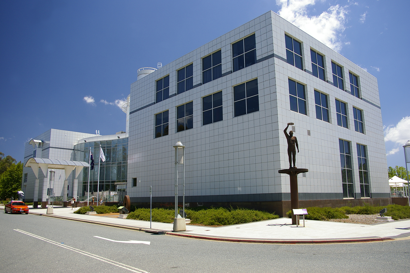 Questacon which is the National Science and Technology Centre in Canberra, Australian Capital Territory.